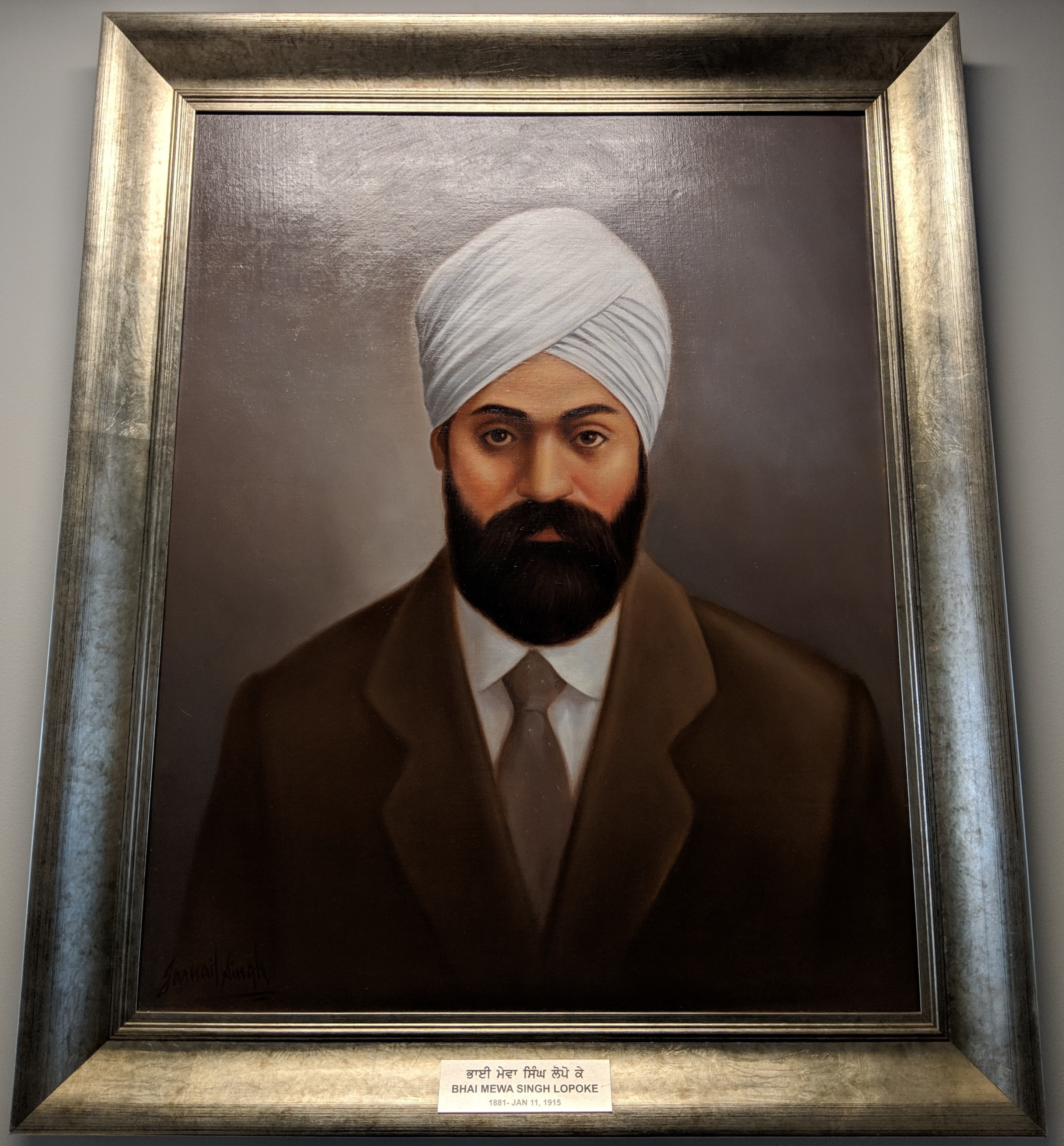 This is a painted portrait of Mewa Singh that is hung in the langar hall (or dining hall) of the Khalsa Diwan Society Ross Street Gurdwara. On the frame, at the bottom, his name is written in Punjabi and English as Bhai Mewa Singh Lopoke and his date of birth and death respectively are shown as well.